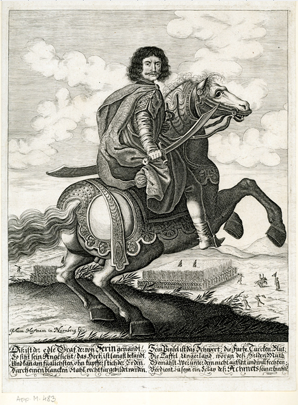 Count Nikola VII Zrinski /Nicholas VII of Zrin/ (1620-1664) as equestrian - painted by Johann Franz Hoffmann (1699-1766), German painter